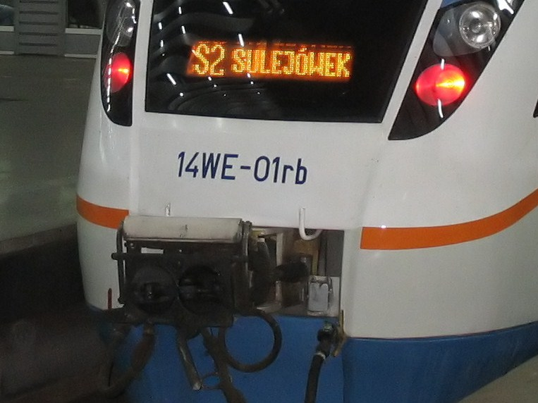 Oznaczenie 14WE-01 - pierwszego pojazdu nieposiadającego oznaczeń PKP